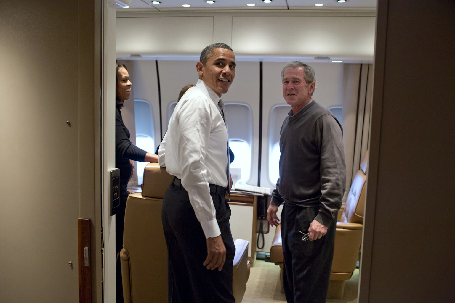 President of the United States Barack Obama with George W. Bush and Michelle Obama shortly after boarding Air Force One for the trip to South Africa on 9 December 2013.